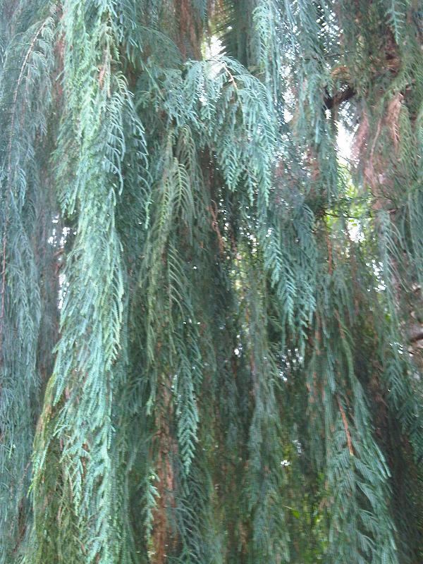 Bhutan Cypress or Kashmir Cypress (Cupressus cashmeriana) leaves in Kew Gardens, London.